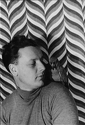 Portrait of Walter Slezak (1902–83), Austrian actor who performed in the U.S. Portrait of Walter Slezak (1934 March 30)